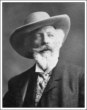 Danish writer, poet and painter.